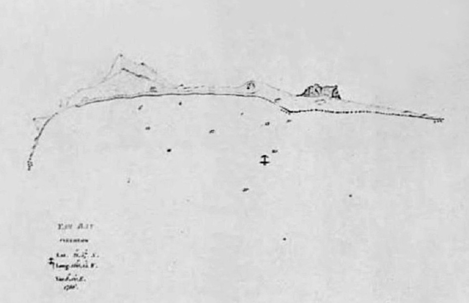 A map of Yam Bay and the island of Niihau in Captain George Dixon's journal in 1788. For many years Niihau was called Yam Island by Western sailors because of the high quality of yams grown there.